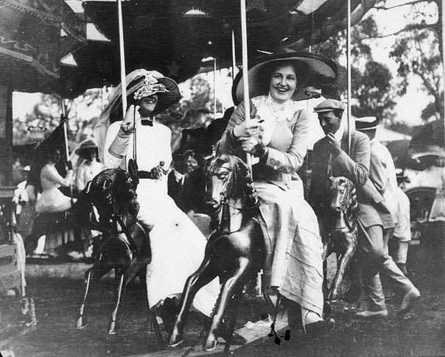 A Day at the Races' - a collection from the State Government of NSW This file was posted to Flickr by the State Library of New South Wales (NSW). See also their website. This tag does not indicate the copyright status of the attached work. A normal copyright tag is still required. See Commons:Licensing for more information. This image is of Australian origin and is now in the public domain because its term of copyright has expired. According to the Australian Copyright Council (ACC), ACC Information Sheet G023v17 (Duration of copyright) (August 2014).3 Type of materialCopyright has expired if … A Photographs or other works published anonymously, under a pseudonym or the creator is unknown:taken or published prior to 1 January 1955BPhotographs (except A):taken prior to 1 January 1955CArtistic works (except A & B):the creator died before 1 January 1955DPublished editions1 (except A & B):first published more than 25 years agoECommonwealth, State or Territory owned2 photographs and engravings:taken or published more than 50 years ago 1 means the typographical arrangement and layout of a published work. eg. newsprint. 2 owned means where a government is the copyright owner as well as would have owned copyright but reached some other agreement with the creator. 3 Copyright Amendment (Disability Access and Other Measures) Bill 2017 (Australian Government) When using this template, please provide information of where the image was first published and who created it.